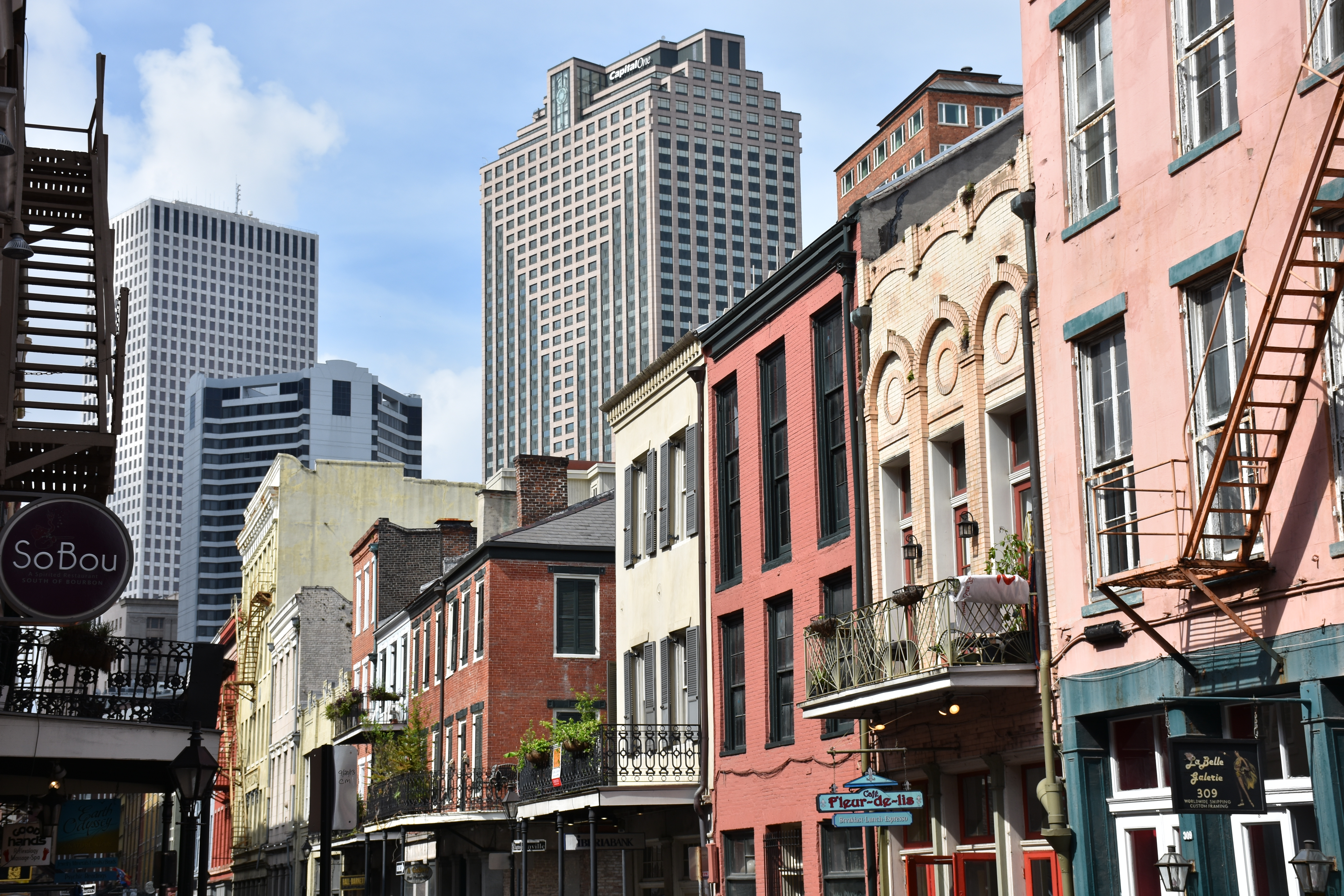 Looking west down Chartres Street in New Orleans from Conti Street, with the Place St. Charles building in the background